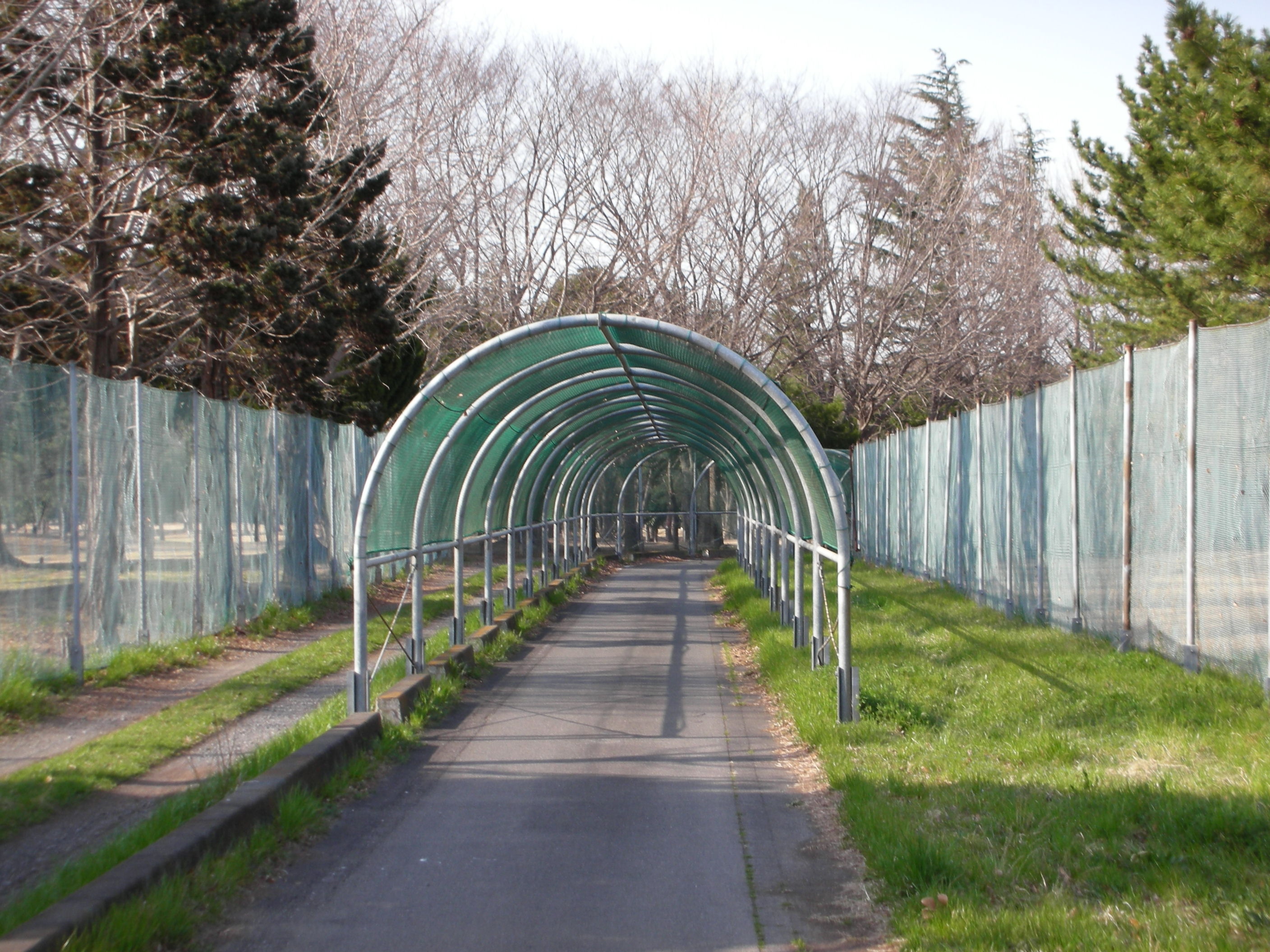 The Takasaki Isesaki Bicycle Road in Kawai, Tamamura Village